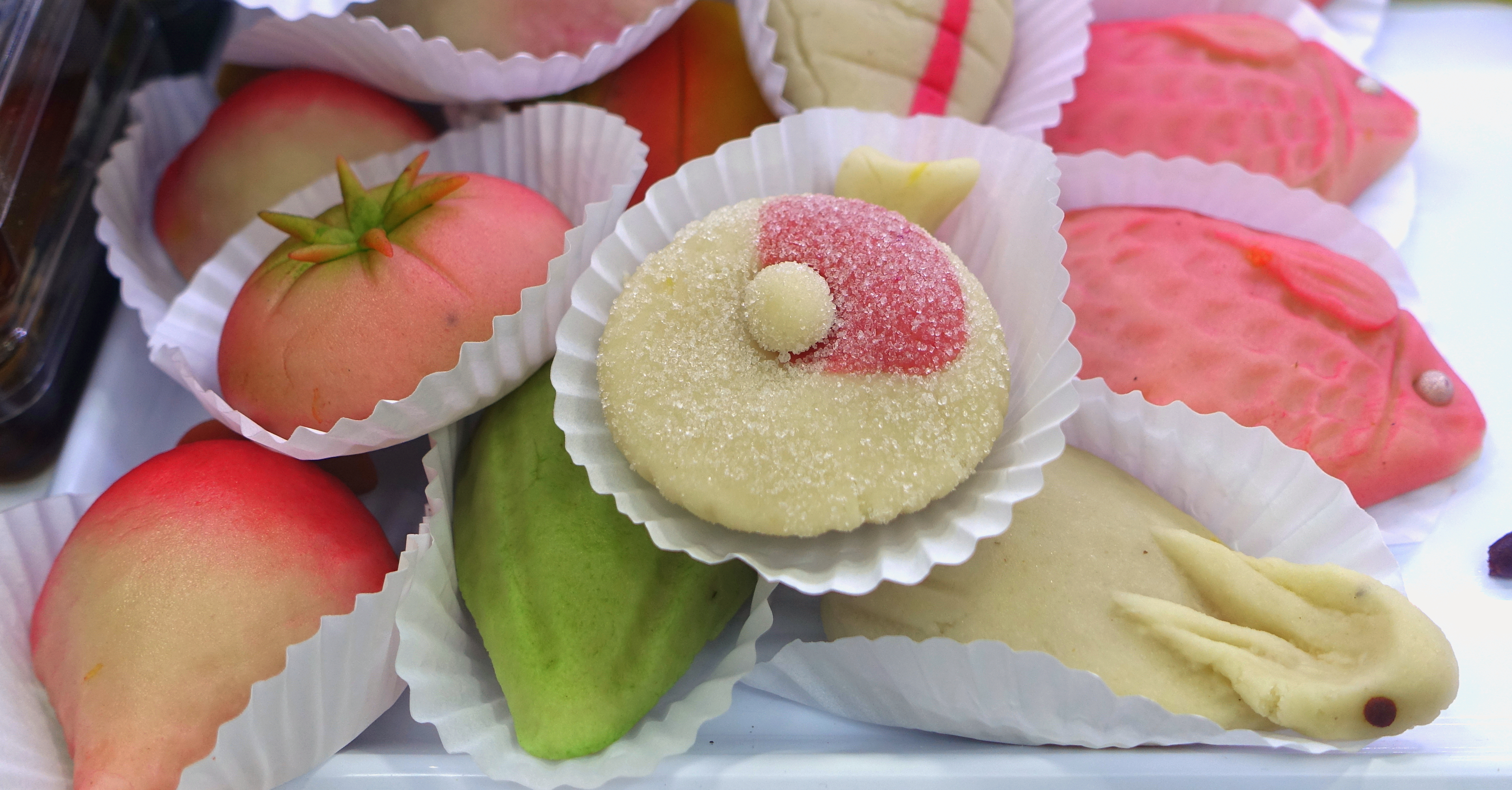 Marzipan - Lisbon, Portugal.